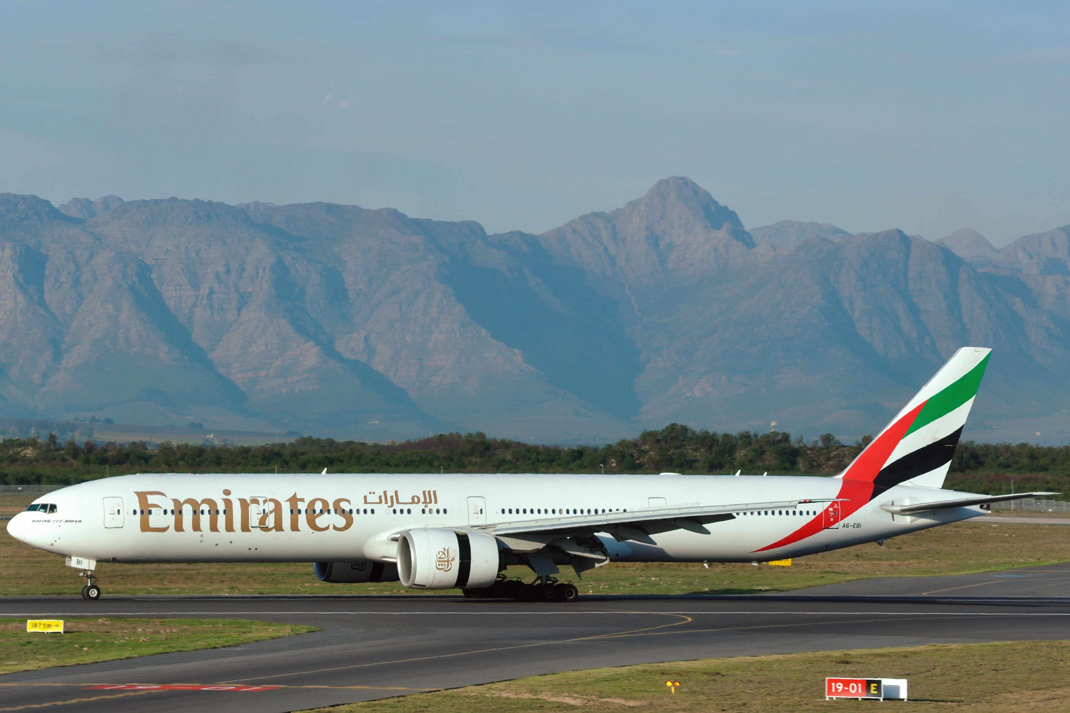 South Africa, spotting at Cape Town International